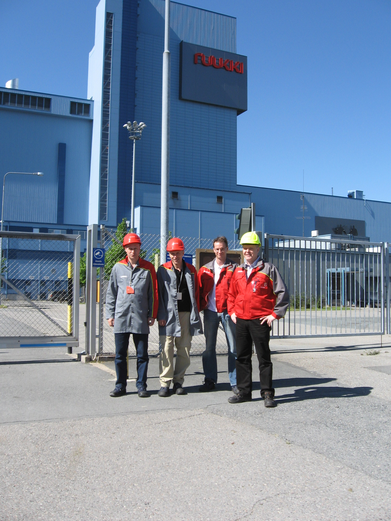 Four employees from Ruukki before the rolling mill in Hämeenlinna, Finland.